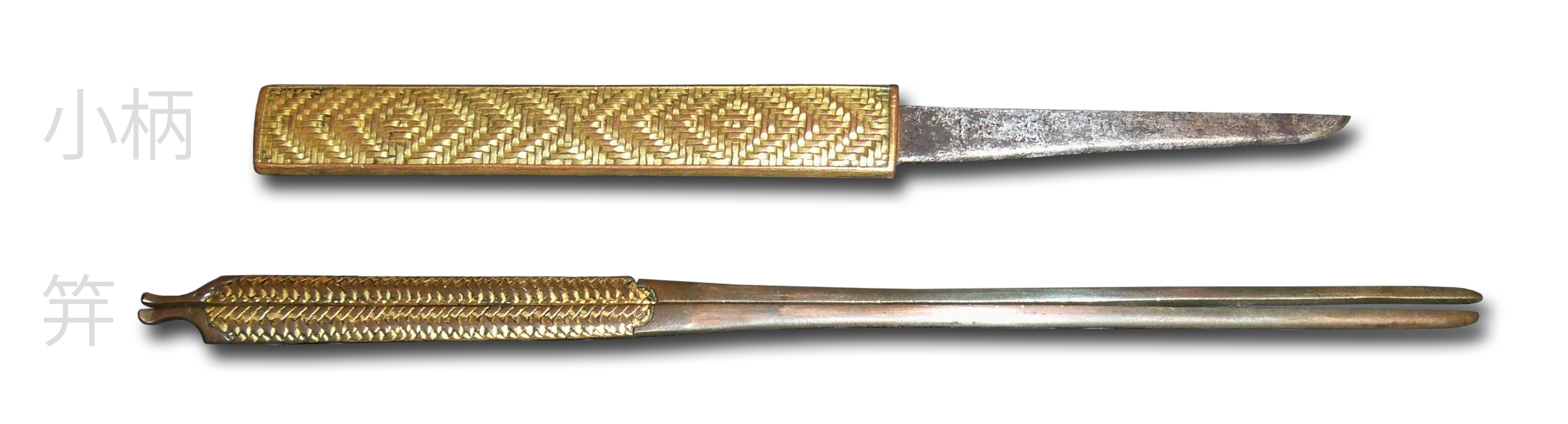 Antique Japanese kogatana and kogai.